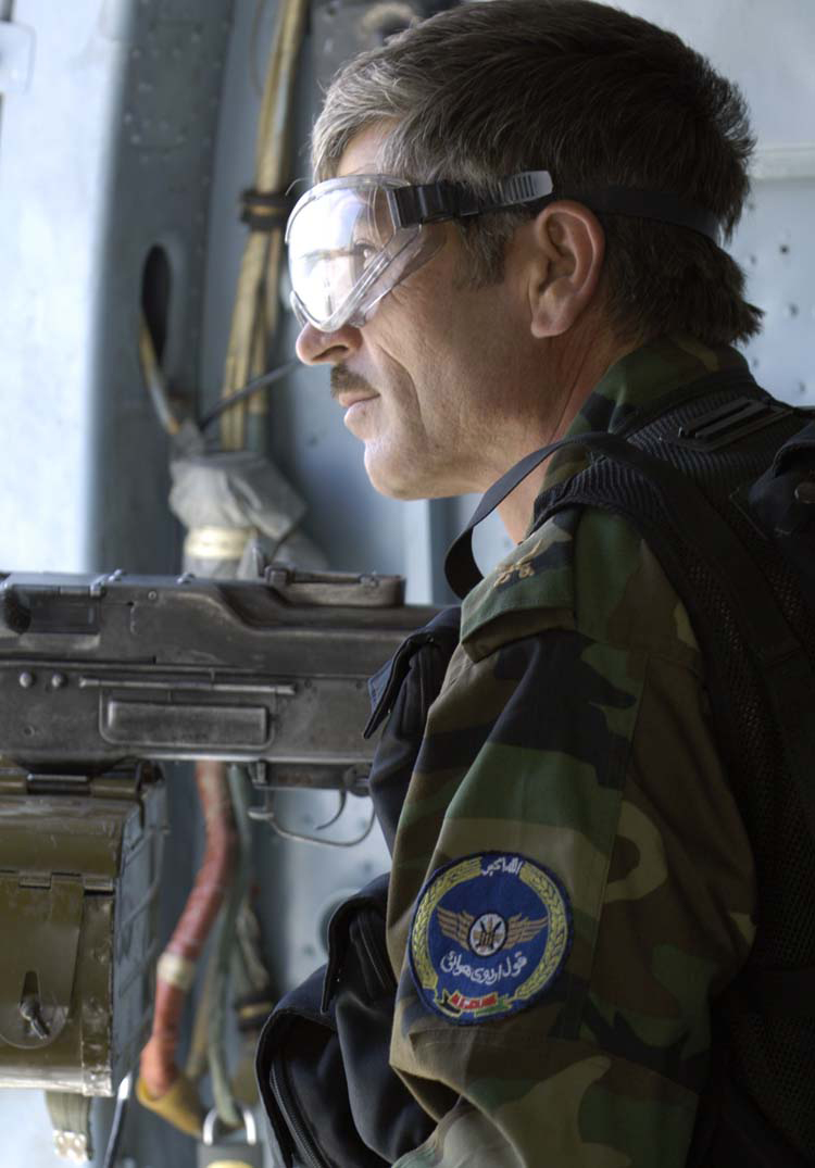 An MI-17 helicopter door gunner from the Afghan national army (ANA) air corps, keeps a watchful eye during a mission on July 25, flown from Kabul International Airport (KIA) in Afghanistan. U.S. Air Force members act as mentors to the ANA soldiers and are assigned to the Combined Security Transition Command-Afghanistan (CSTC-A) headquartered at Camp Eggers in Kabul, Afghanistan. CSTC-A partners with the government of the Islamic Republic of Afghanistan and the international community, to plan, program, and implement structural, organizational, institutional and management reforms of the Afghanistan national security forces. The 500+ military members assigned to CSTC-A provide mentorship and training to the Afghan national army and to the Afghan national police in order to develop a stable Afghanistan, strengthen the rule of law, and deter and defeat terrorism within its borders.